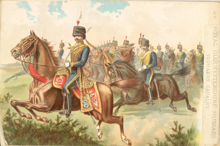 Royal Gloucestershire Hussars (19th Century)